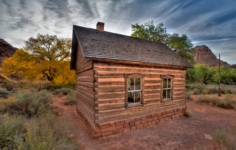 The Fruita School house in Capitol Reef National Park, Utah, USA